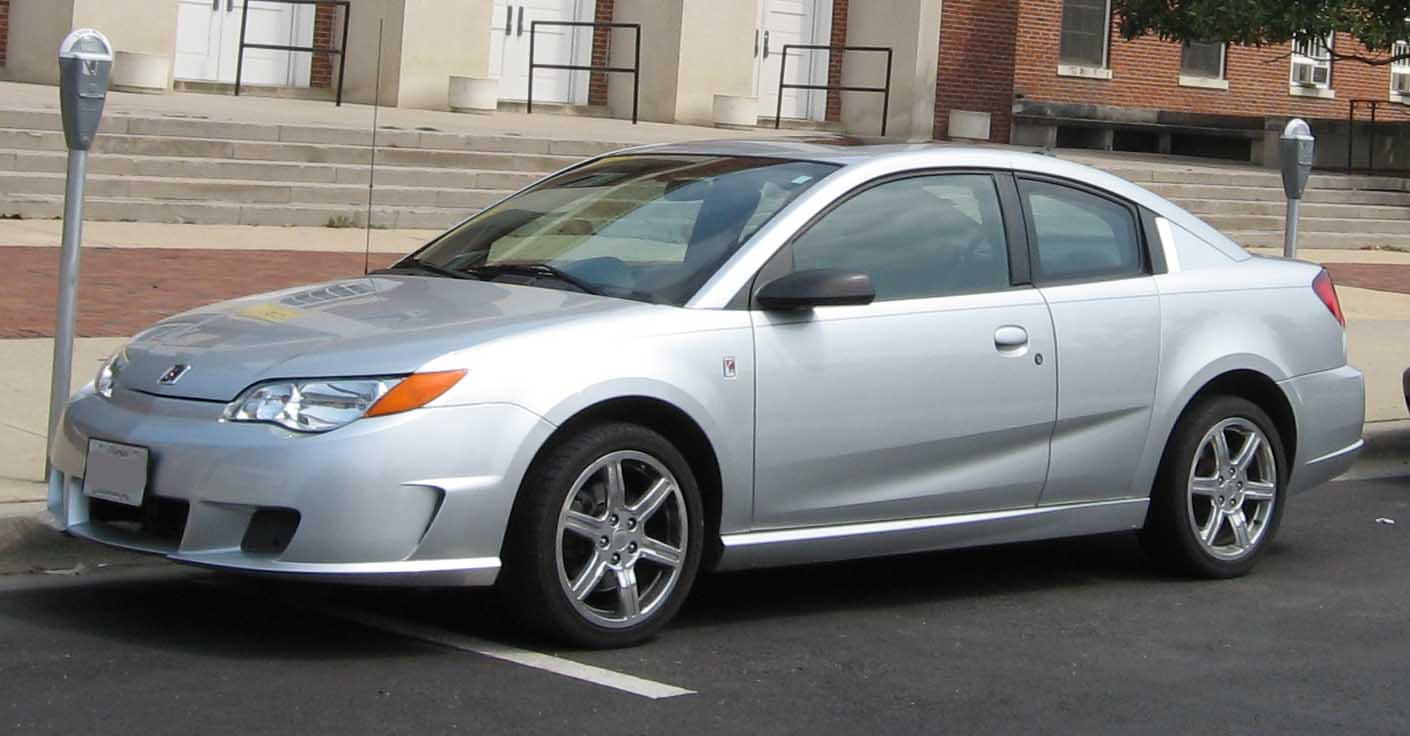 2004-2007 Saturn Ion photographed in USA.